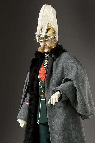 Historical Mixed Media Figure of Alexander II Nikolaevitch produced by artist/historian George S. Stuart and photographed by Peter d'Aprix. This image, from the George S. Stuart Gallery of Historical Figures® archive ( is provided for all uses with appropriate attribution. Any derivatives must be shared in the same manner. Contributor mharrsch is webmaster for the gallery site.